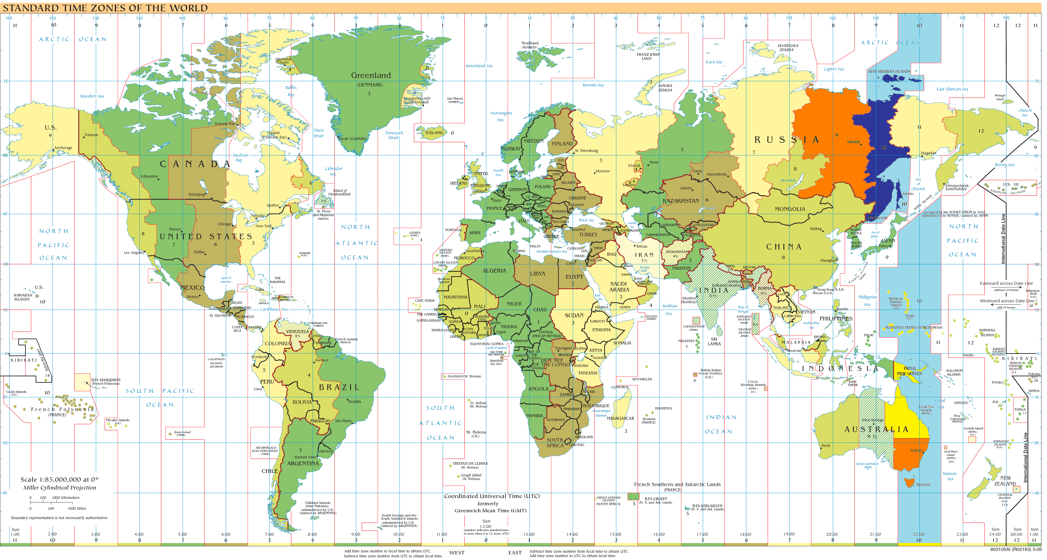 Copy of Timezones2008.png, highlighting UTC+10 Dark Blue - UTC+10 during Northern Winter / Southern Summer Orange - UTC+10 during Northern Summer / Southern Winter Yellow - UTC+10 all year round Light Blue - UTC+10 sea areas